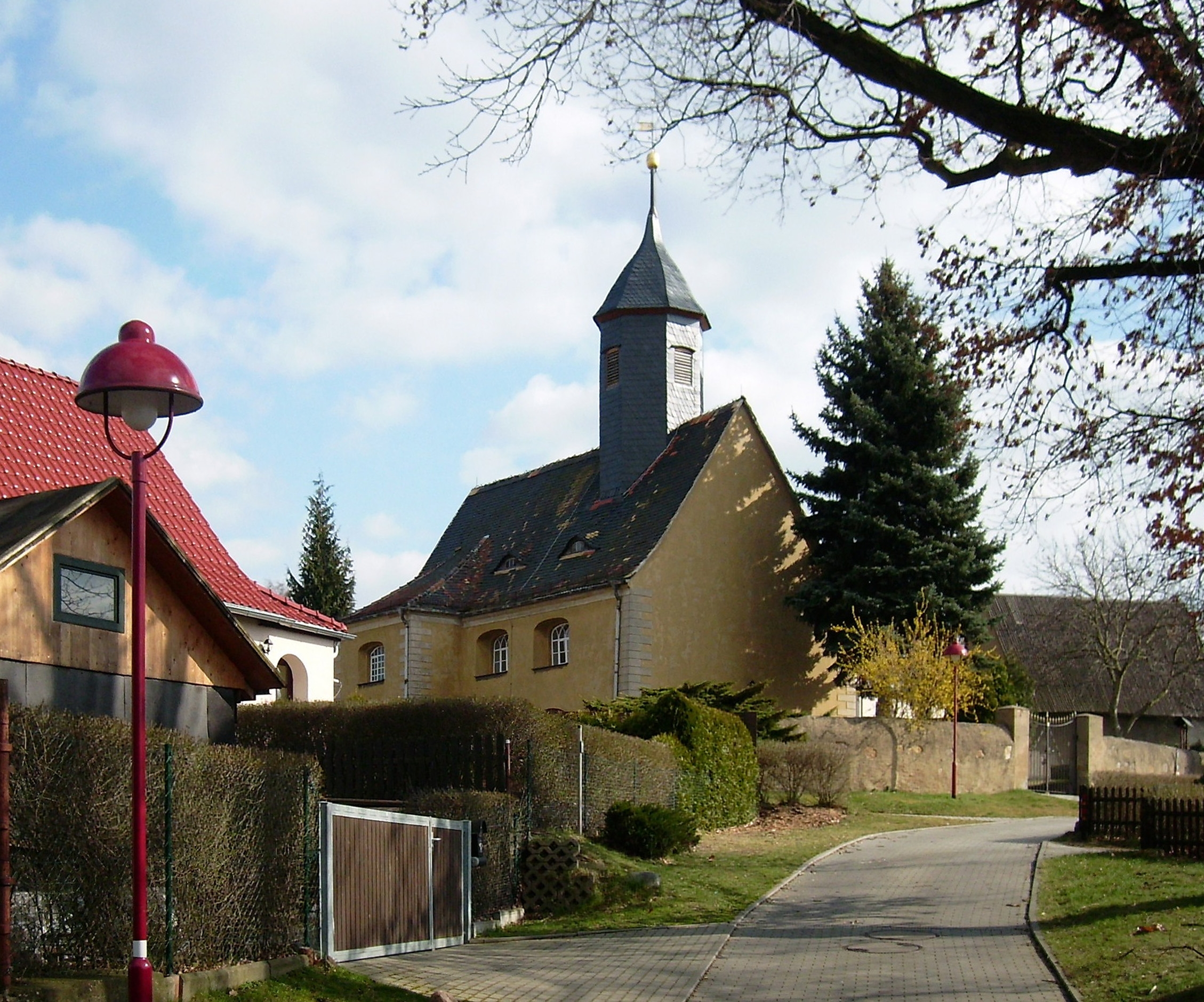 Church of the village of Dittmannsdorf (Kitzscher, Leipzig district, Saxony)